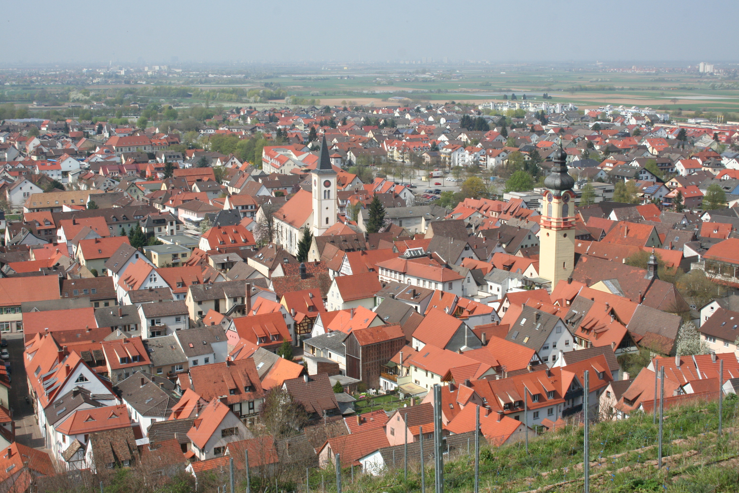 Schriesheim, Germany